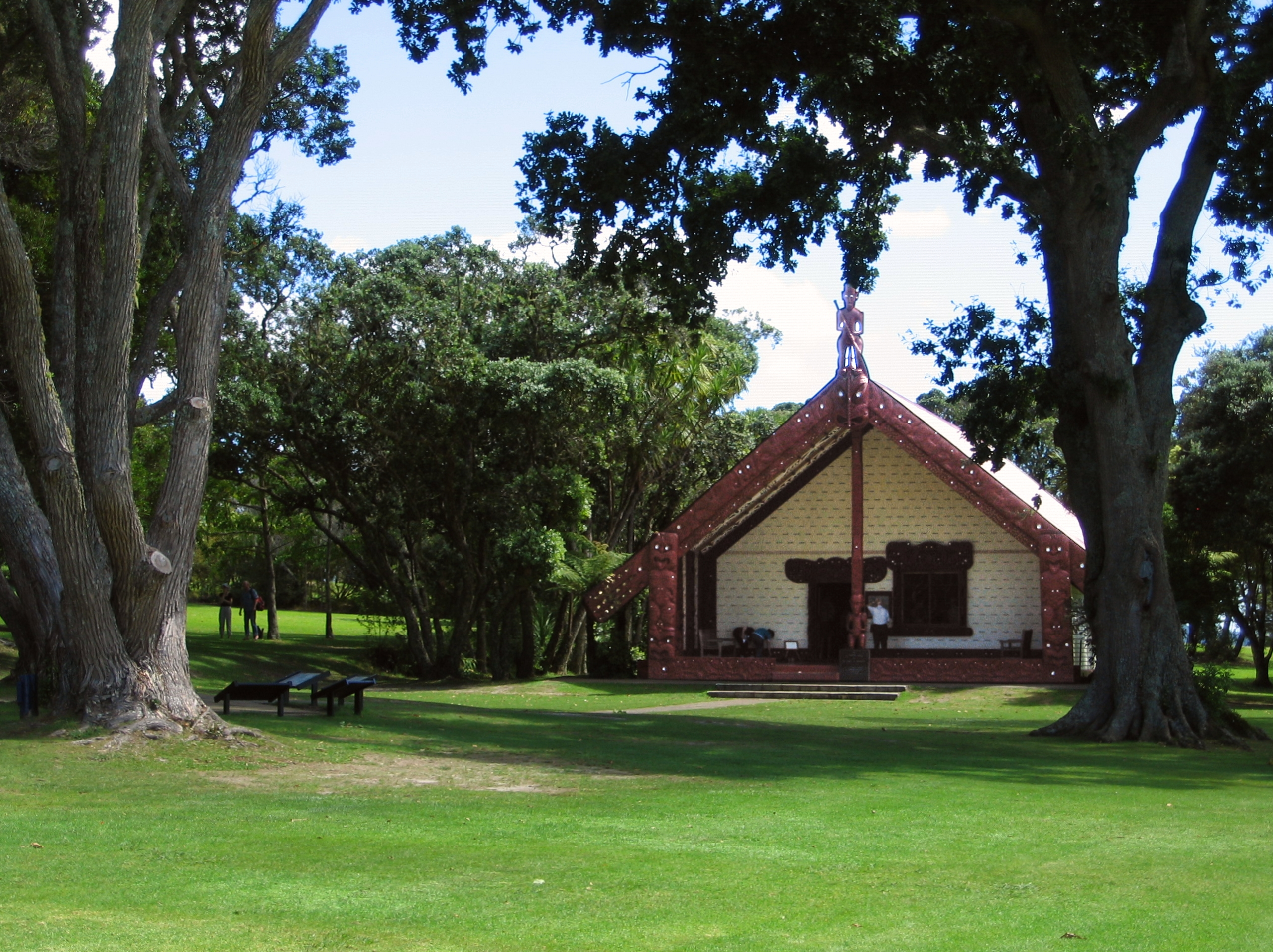 The Treaty Grounds at the Waitangi National Reserve features a meeting house which has been meticulously carved by Maori artists.